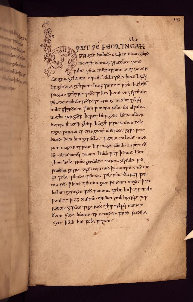 'The Cædmon Manuscript': parts of Genesis, Exodus and Daniel in Old English verse, illustrated with Anglo-Saxon drawings, c. A.D. 1000.; 143